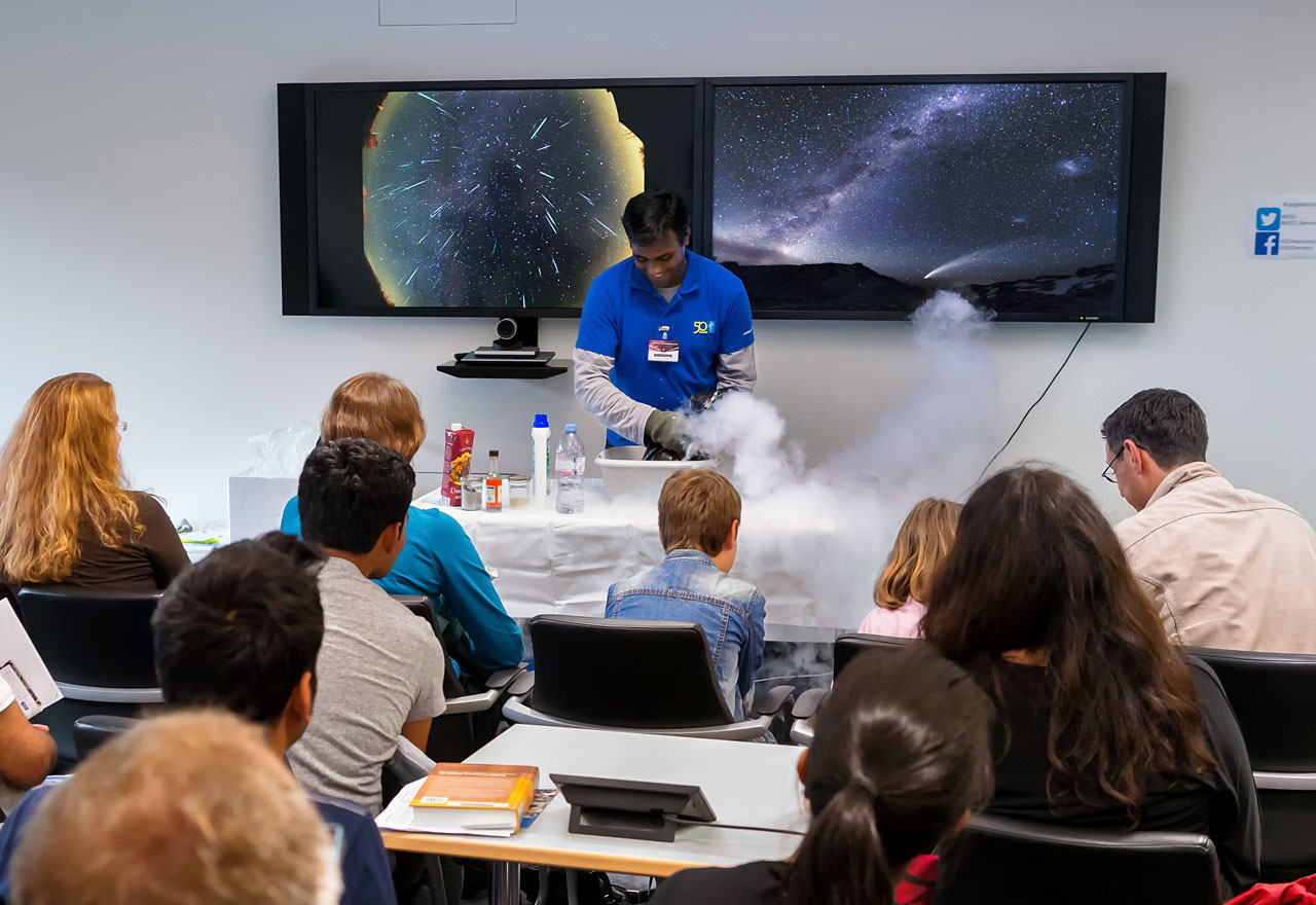 On 27 June 2015, the ESO Headquarters in Garching, Germany, opened its doors to the public as part of the Long Night of Science (Lange Nacht der Wissenschaften), along with the other facilities based at the science campus in Garching. ESO invited visitors to experience the work of this world-leading ground-based astronomy organisation at first hand with eighteen different activities to take part in. In the picture ESO astronomer Vinod Arumugam is making a comet out of dry ice. Before the doors had even opened at six in the evening people were waiting outside, eager to look around the Headquarters and take part in the activities within. In total, 3800 people attended the events and had the chance to have their questions answered by experienced astronomers; see live experiments; join guided tours through the new office and technical buildings; listen to talks about ongoing astronomical research; visit the exhibition LIGHT: Beyond the Bulb; and even participate in live interviews with astronomers in the Chilean Atacama Desert. Included in the activities for this year’s event were presentations of ESO’s future projects, like the European Extremely Large Telescope, whose construction just started in Chile, and the new ESO Supernova Planetarium & Visitor Centre, which is currently under construction at the headquarters site. When it opens in 2017 the ESO Supernova will allow visitors to experience the world of ESO and its work not just once a year, but all year round. To view photos from the event, visit our Facebook album. If you participated in the Open House Day 2015 and took pictures, we invite you to share them on the Your ESO Pictures Flickr group.